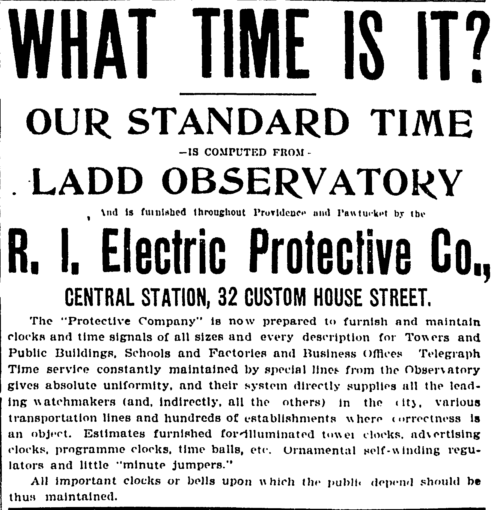 Advertisement from the Rhode Island Electric Protective company offering a telegraph time service synchornized to clocks from Ladd Observatory. Providence Sunday Journal. Sept. 23, 1900. Original text: What Time Is It? Our Standard Time Is Computed from Ladd Observatory And Is Furnished Throughout Providence and Pawtucket by the R. I. Electric Protective Co., Central Station, 32 Custom House Street.